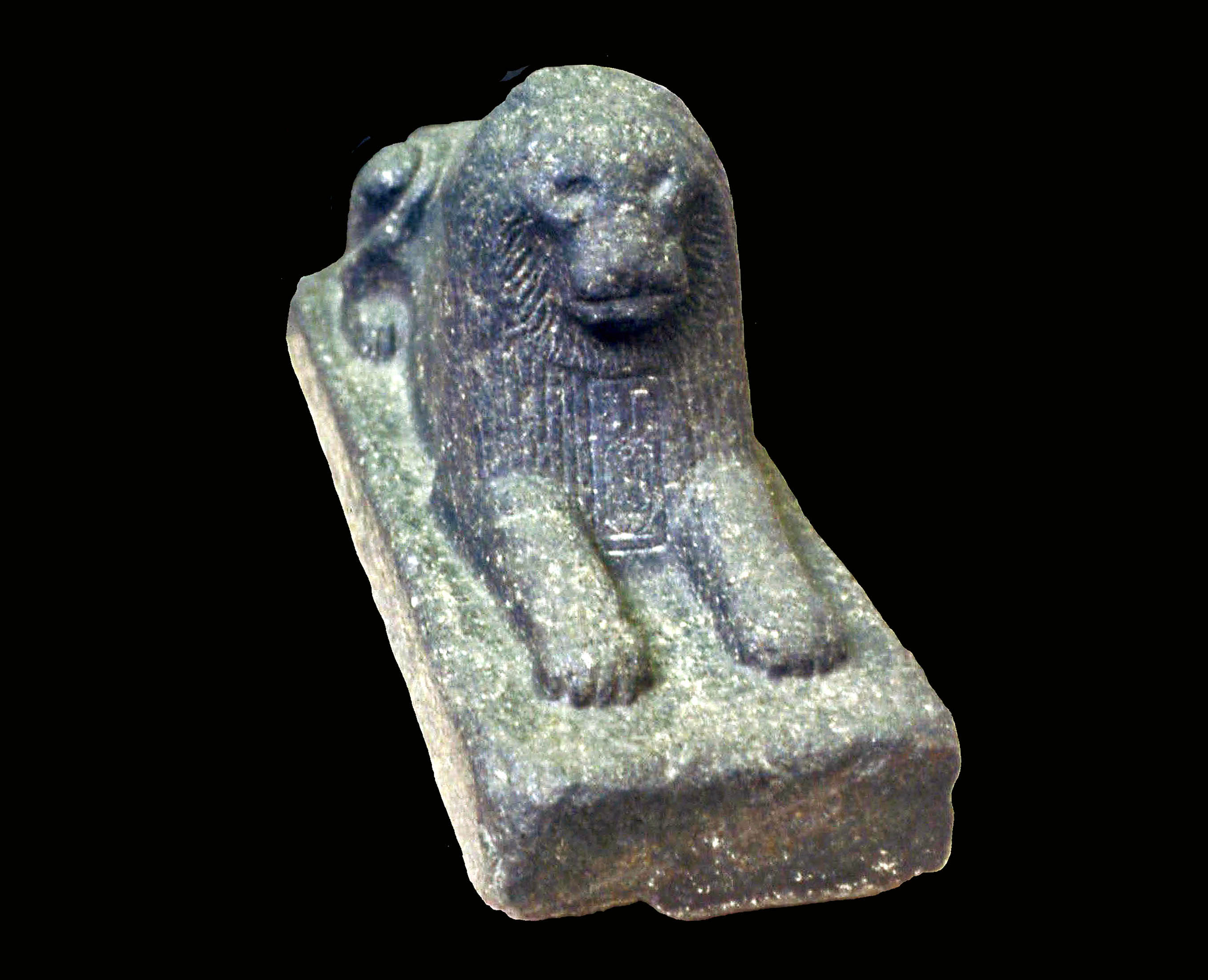 Lion of the Hyksos king Seuserenre Khyan • Conservation: London. British Museum, EA 987. bibliography: Labib, "Herrchaft der Hyksos, (1936), p. 32. Pl 8 [a]. Ryholt, K.S.B. "The Political Situation in Egypt During the Second Intermediate Period". 1997, p.384.